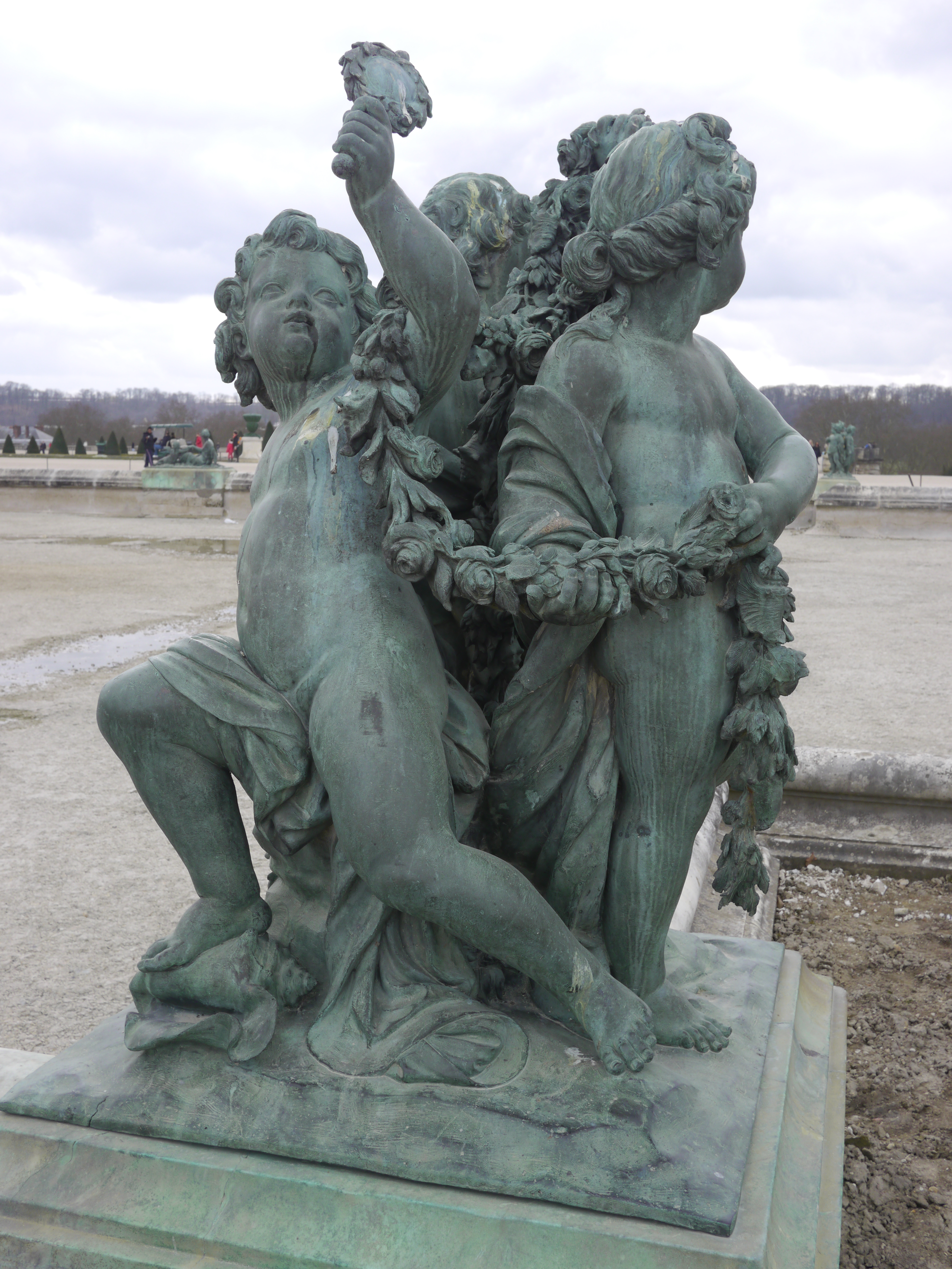 Statue of the Parterre d'Eau of the Château de Versailles' in France.